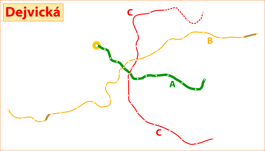 The Dejvická metro station (yellow circle) — on the Prague Metro system.